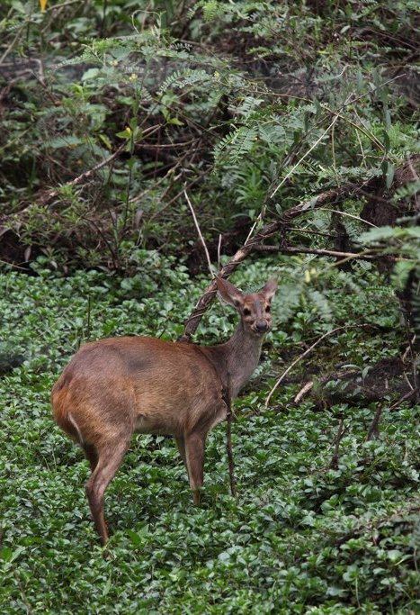 Mazama americana